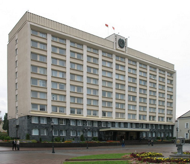 Hrodna Region (province) Administration Building in Hrodna (Гро́дна, Гродно, Grodno, Gardinas), Belarus.